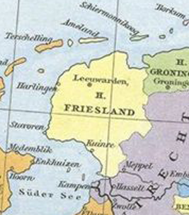 Lordship of Frisia in the 15th century